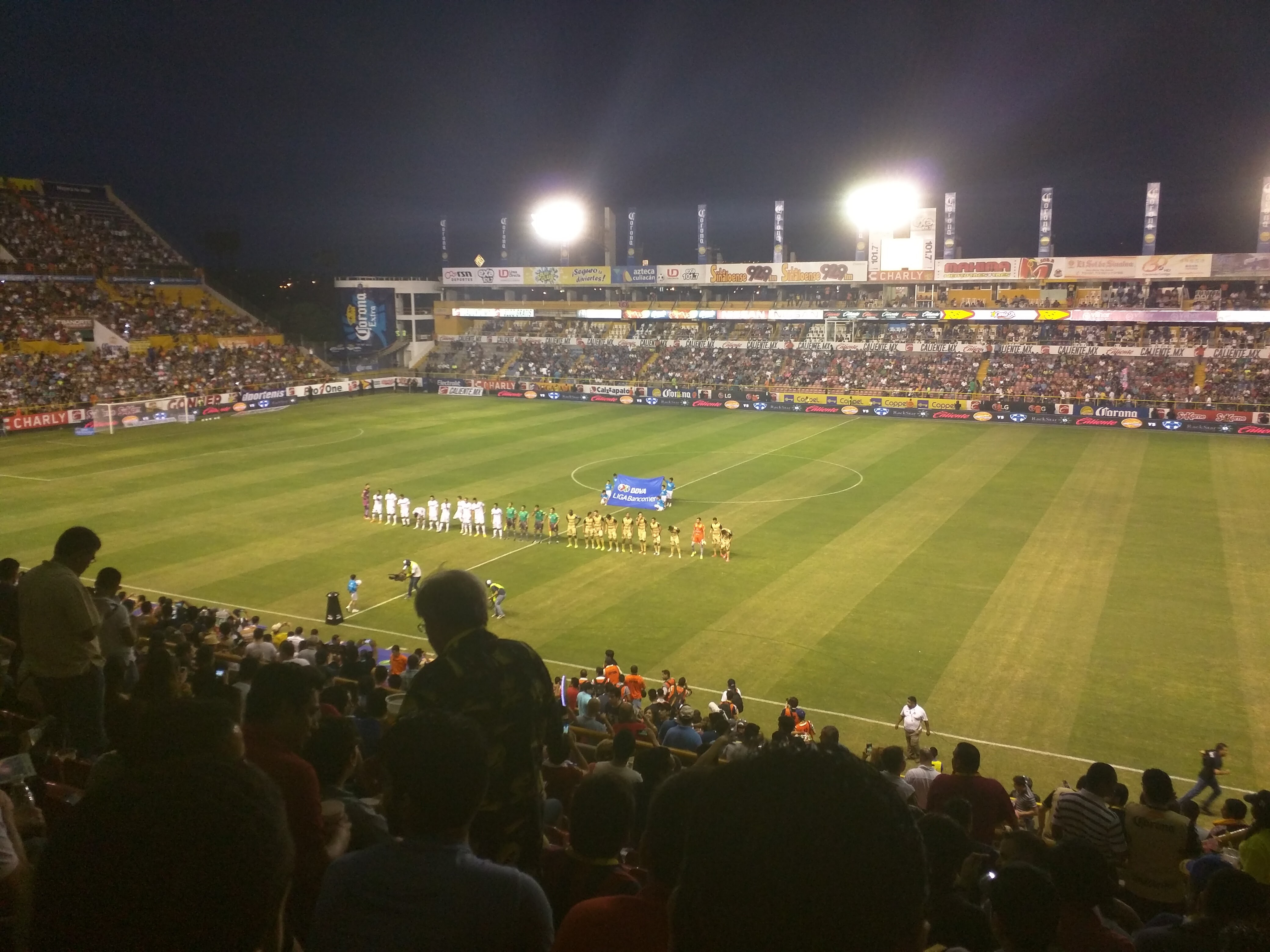 Dorados Sinaloa playing against Monterrey FC in Liga MX at Estadio Banorte